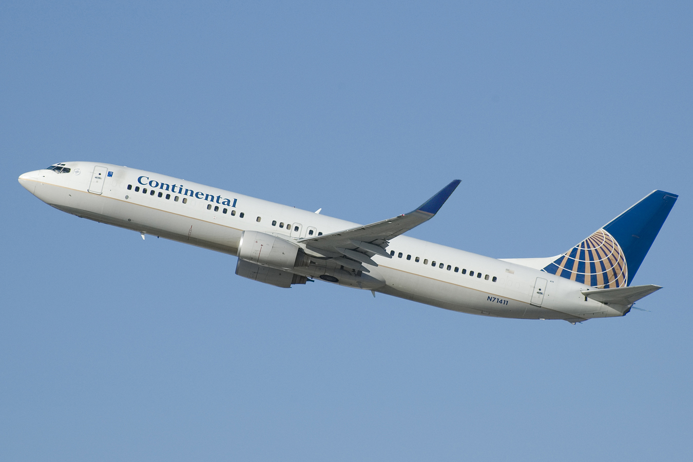 Continental Airlines Boeing 737-800 N71411 departing LAX.